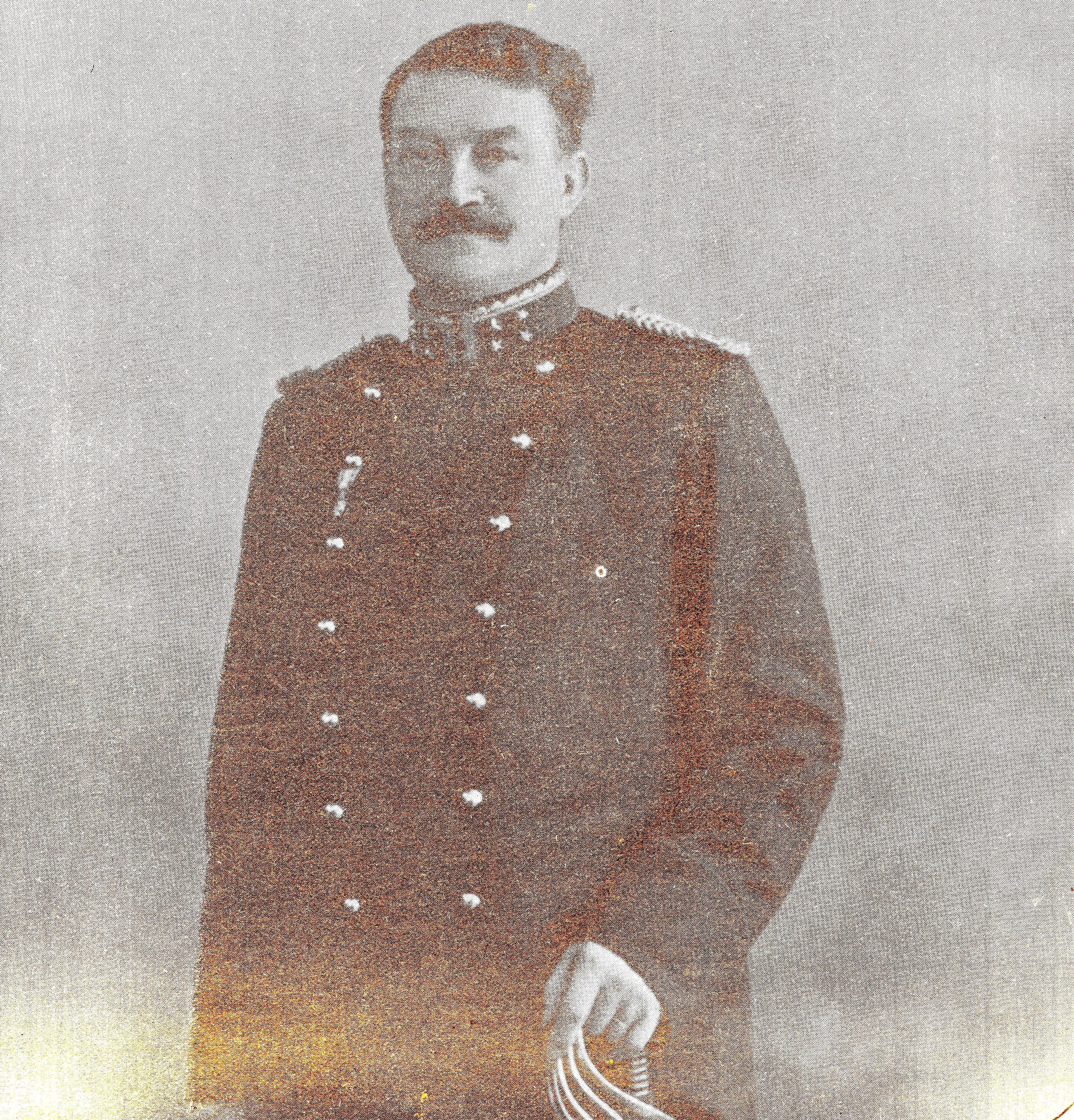 Generaal majoor HP Staal, minister van oorlog